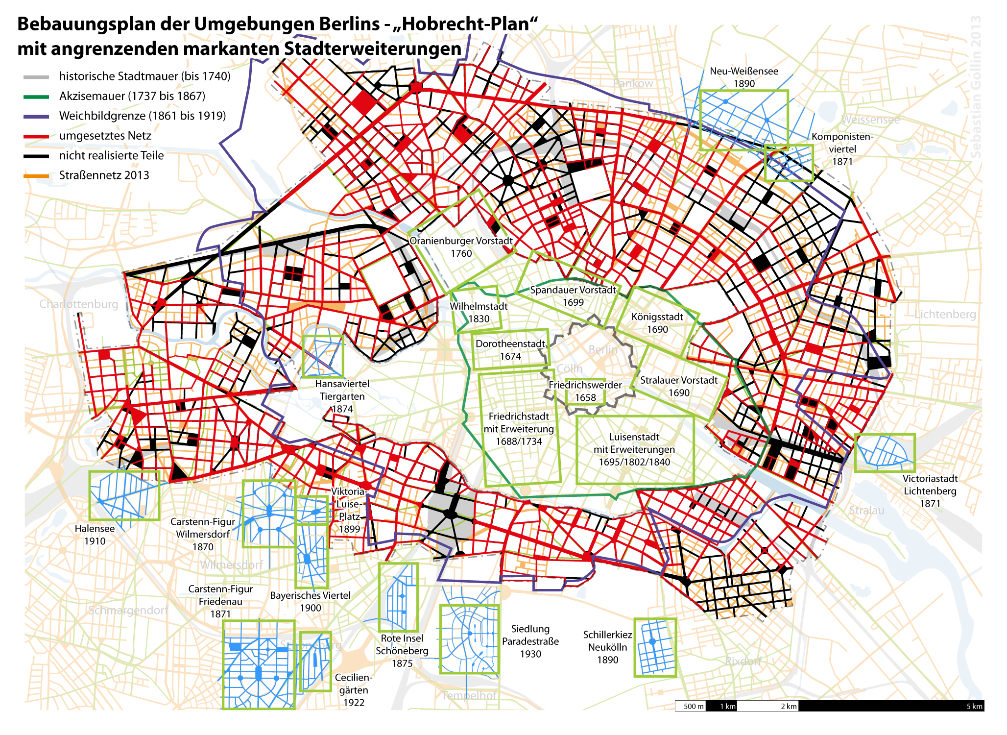 Urbanization plan for Berlin by James Hombrecht in 1862